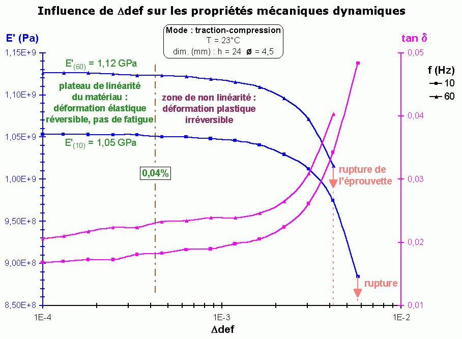 effects of dynamic strain amplitude on the mechanical properties (real part of the modulus E and loss factor tan delta) of a polymer material using DMA technique.